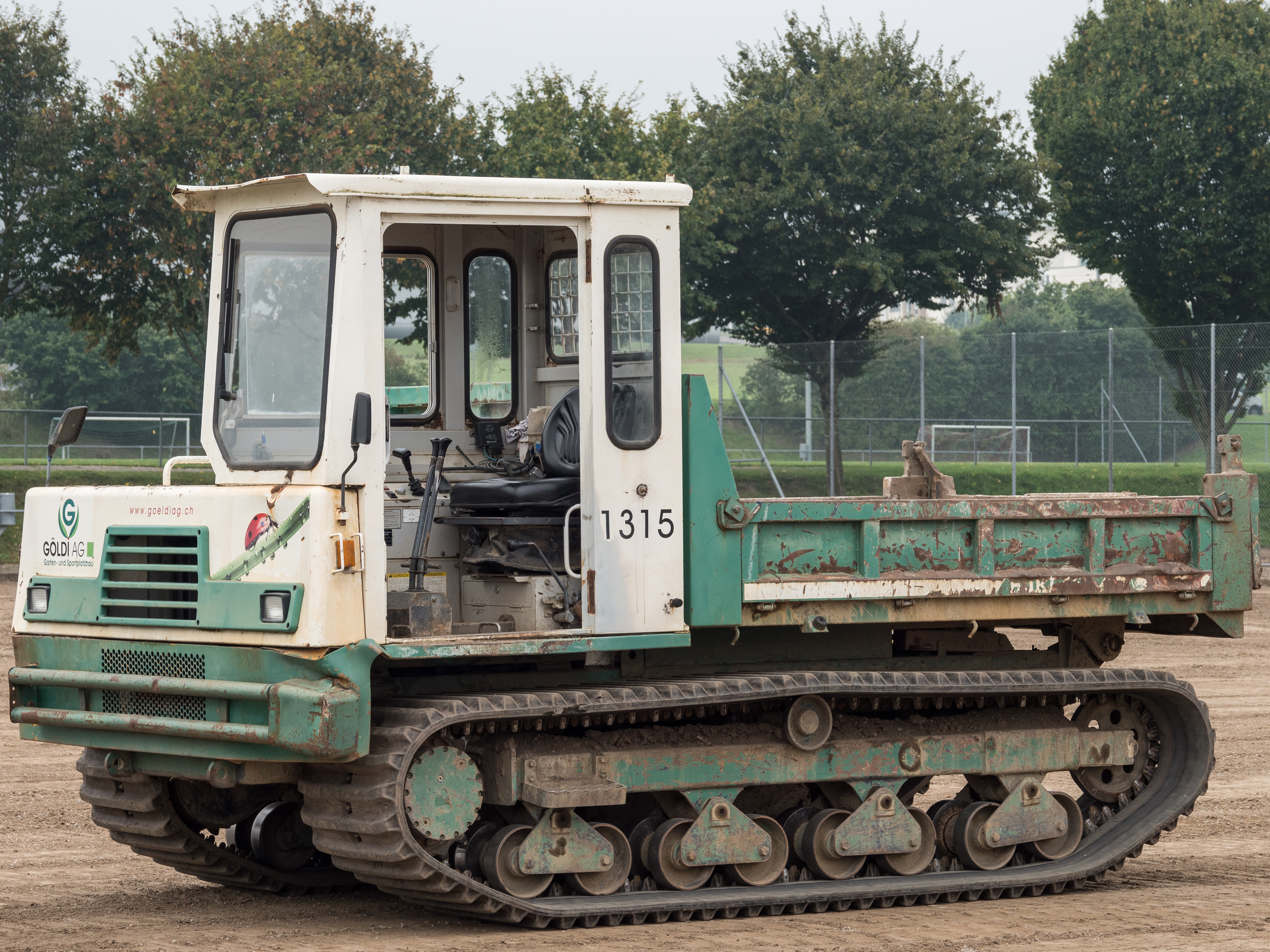 Crawler Carrier Huki 450 of Hutter Baumaschinen AG, Altstätten, Switzerland.